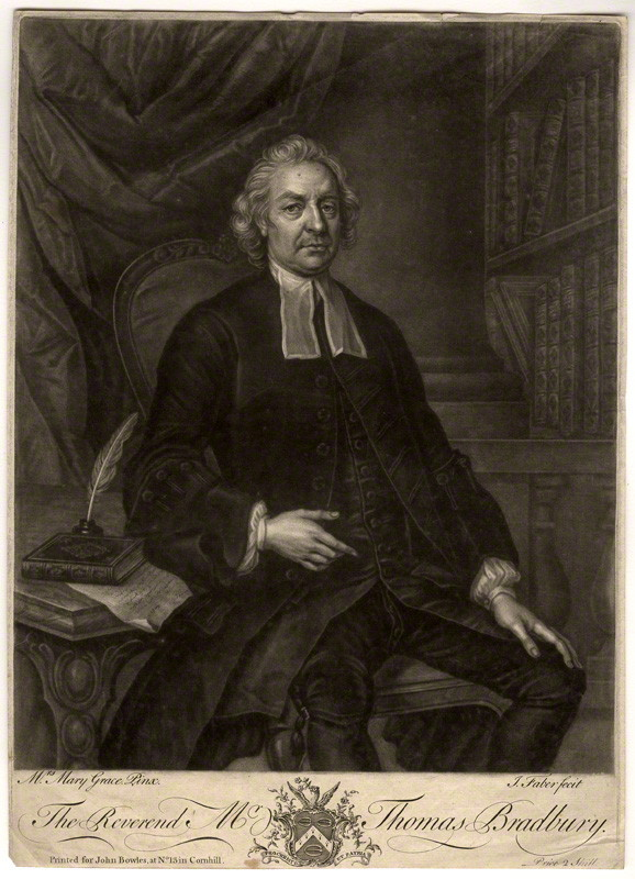 Reverend Thomas Bradbury by John Faber Jr, after Mary Grace, mezzotint, mid 18th century